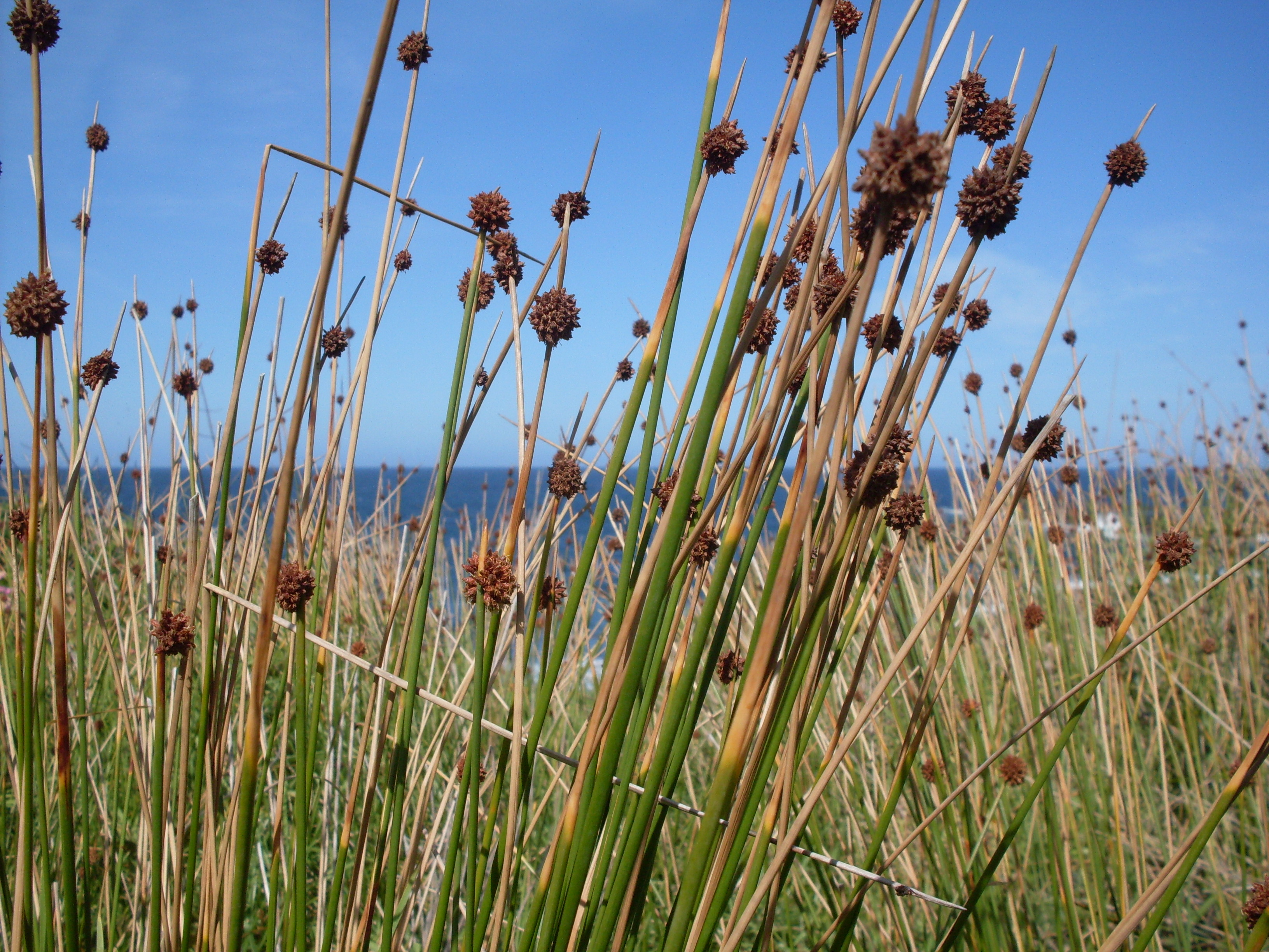 Knobby club-rush Isolepis nodosa aka Ficinia nodosa. Gerroa, NSW Australia, March 2009.